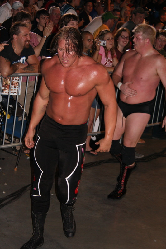 Lance Cade and Trevor Murdoch during a WWE house show held in Kitchener, Ontario, Canada on August 12, 2005.cade and murdoch